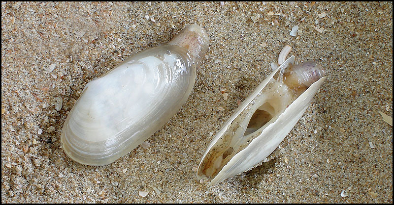 Otter shell - Lutraria lutraria - Location: Katwijk, Netherlands